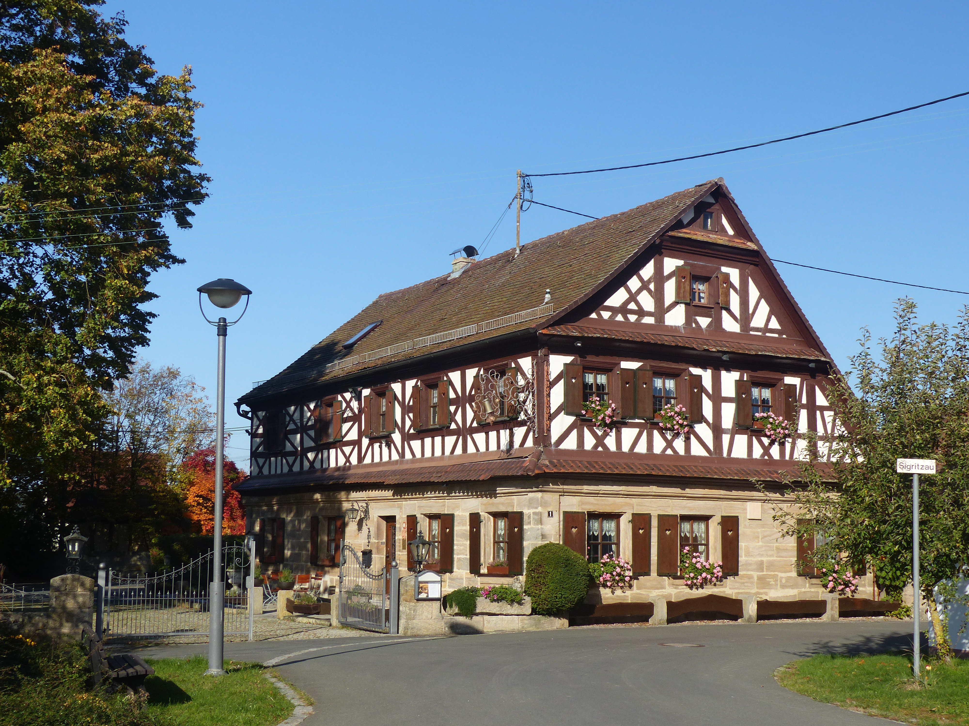 An inn in the hamlet Sigritzau, a district of the town of Forchheim.